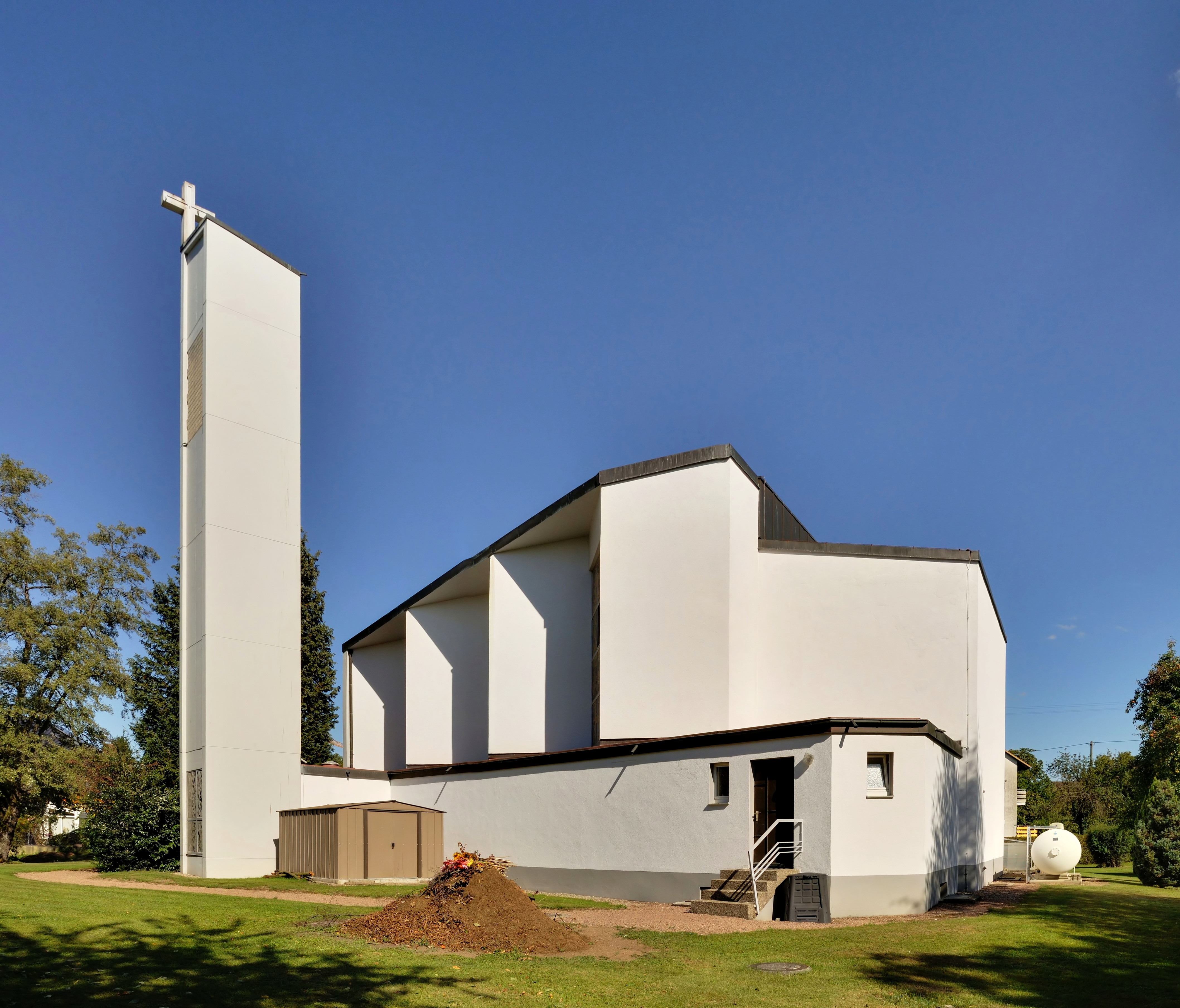 Maulburg: Catholic Church